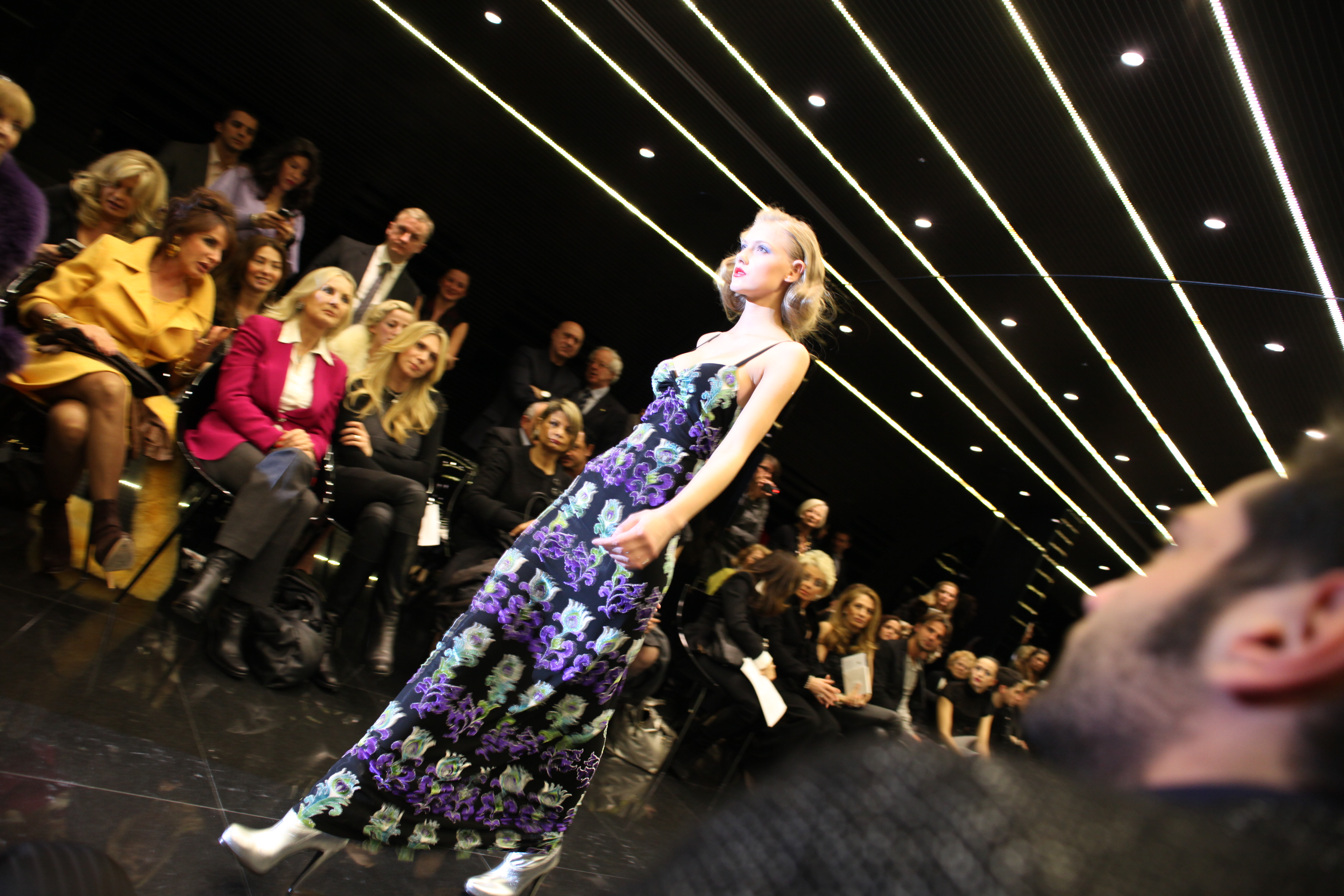 Milan Fashion Ween